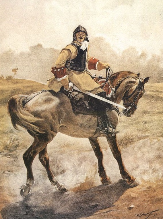 A late 19th century depiction of an Austrian cuirassier from 1705. Note the archaic zischäge helmet, which had fallen out of use in most European armies after the late 17th century.